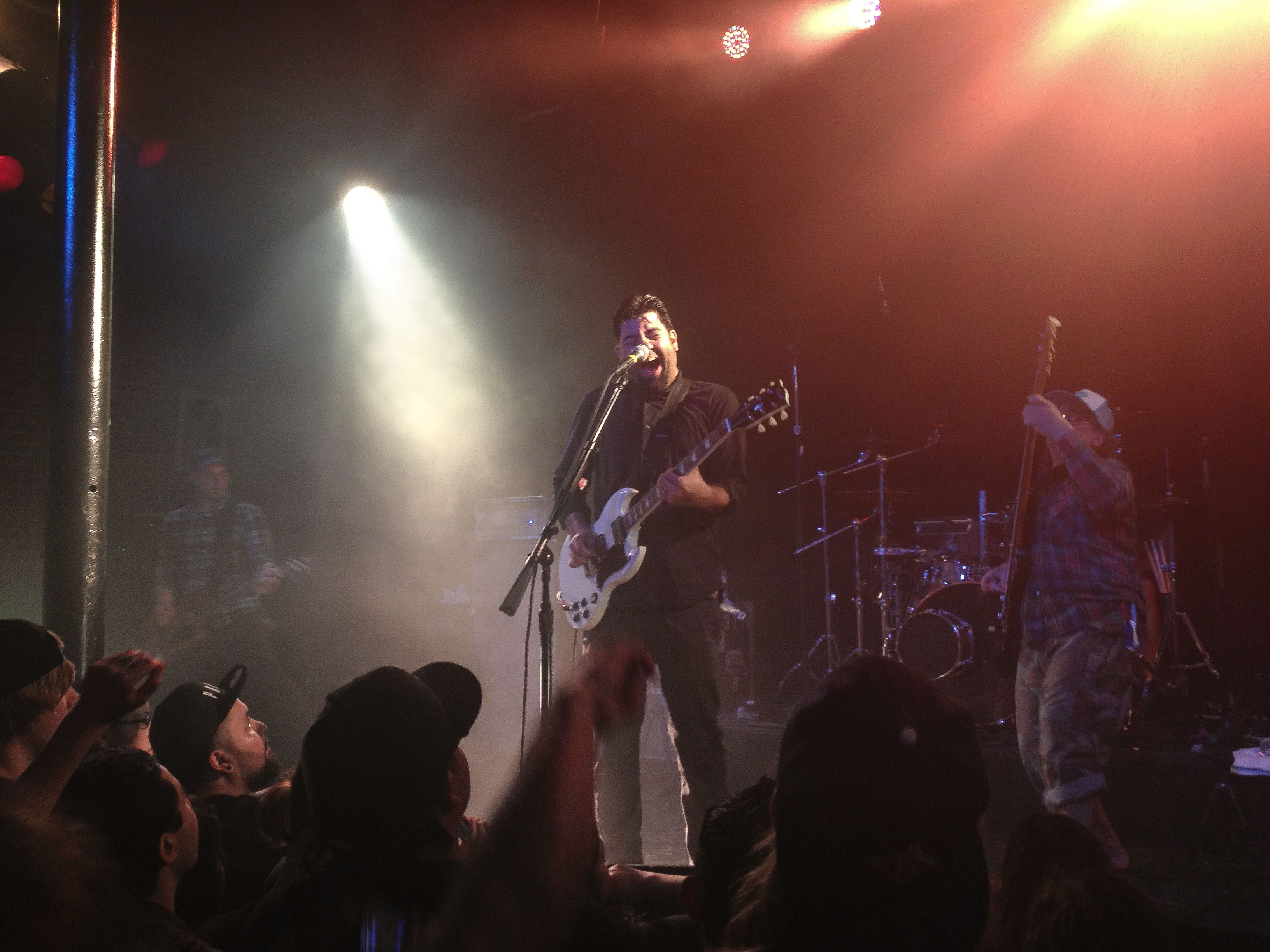 Palms performing at Slim's in San Francisco on 13 July 2013. From left to right: Jeff Caxide, Chino Moreno and Bryant Clifford Meyer.